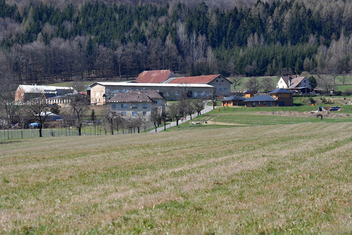 Bludoveček overviewed